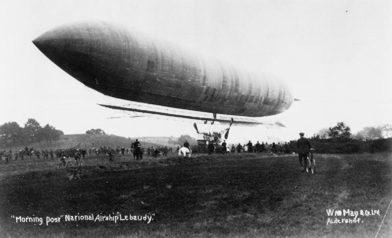 Aviation in Britain Before the First World War The Lebaudy airship just taking off.